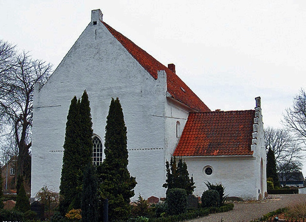 Arninge Church, Lolland, Denmark. Derivative file, cropped to remove caption.